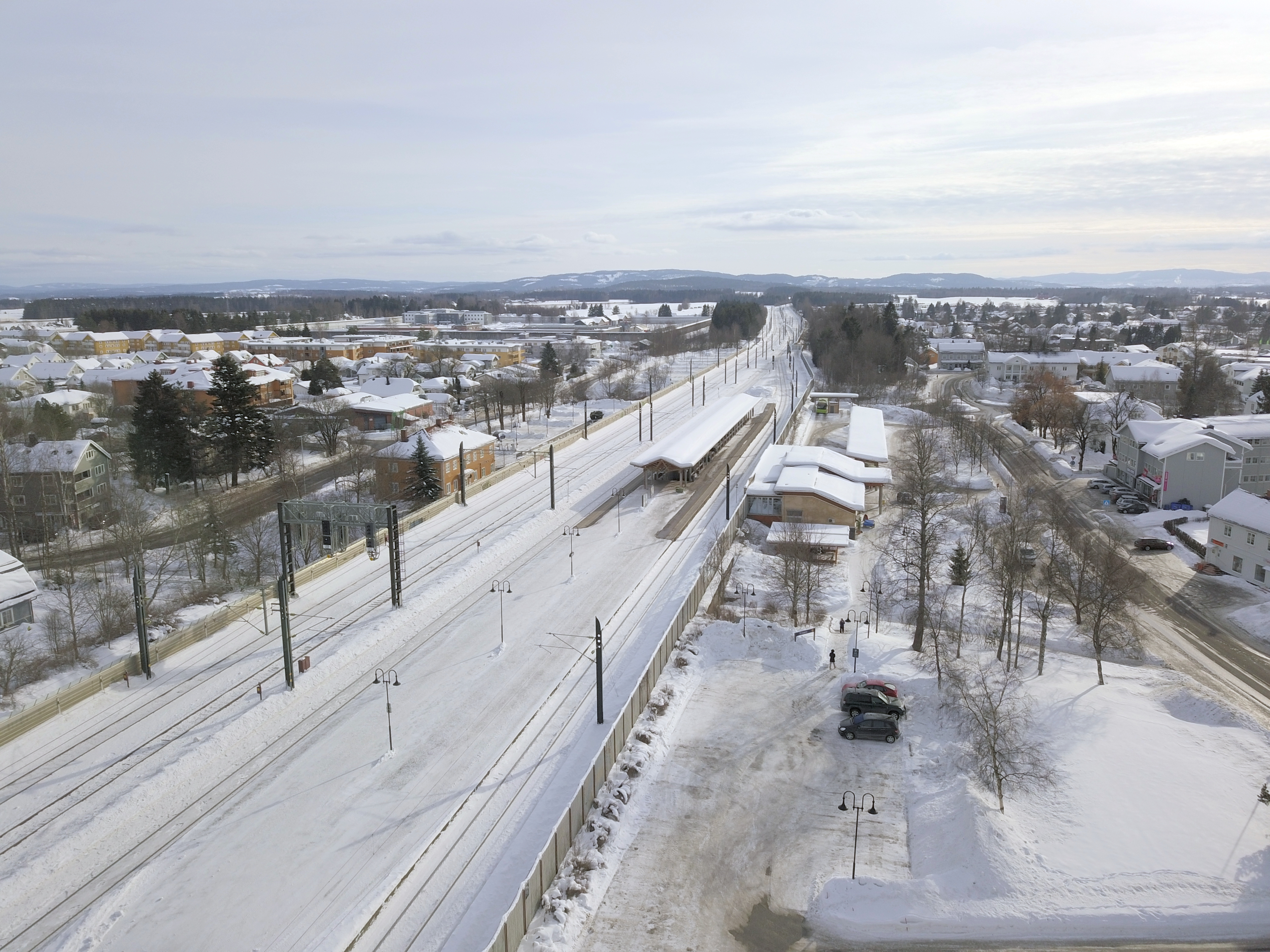 Drone photo of Kløfta stasjon